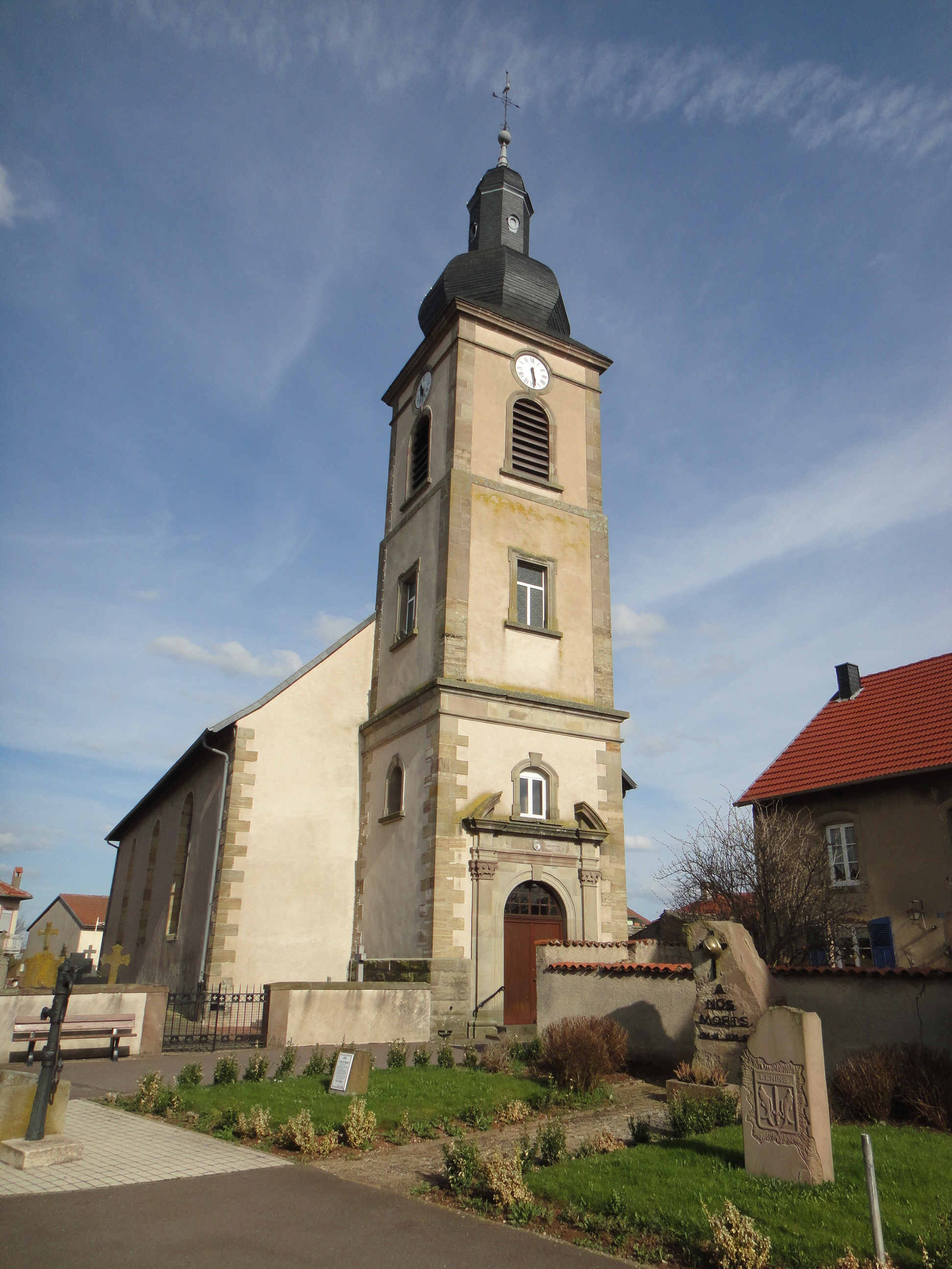 St Bartholomew church in Léning, Lorraine (France)